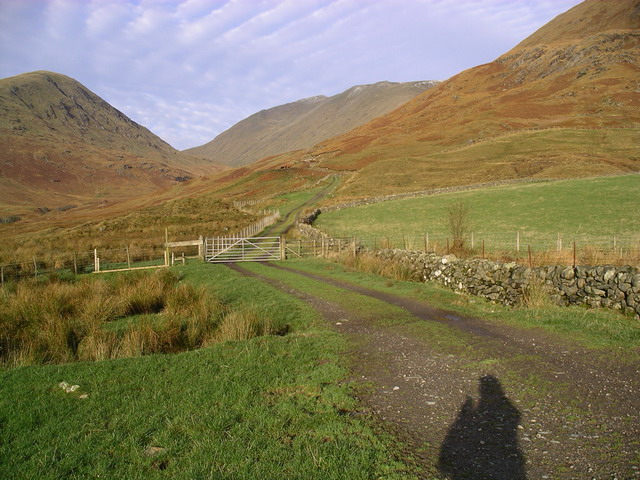 Track to Beinn a'Chochuill. Beinn a'Chochuill on the left, Beinn Eunaich on the right.